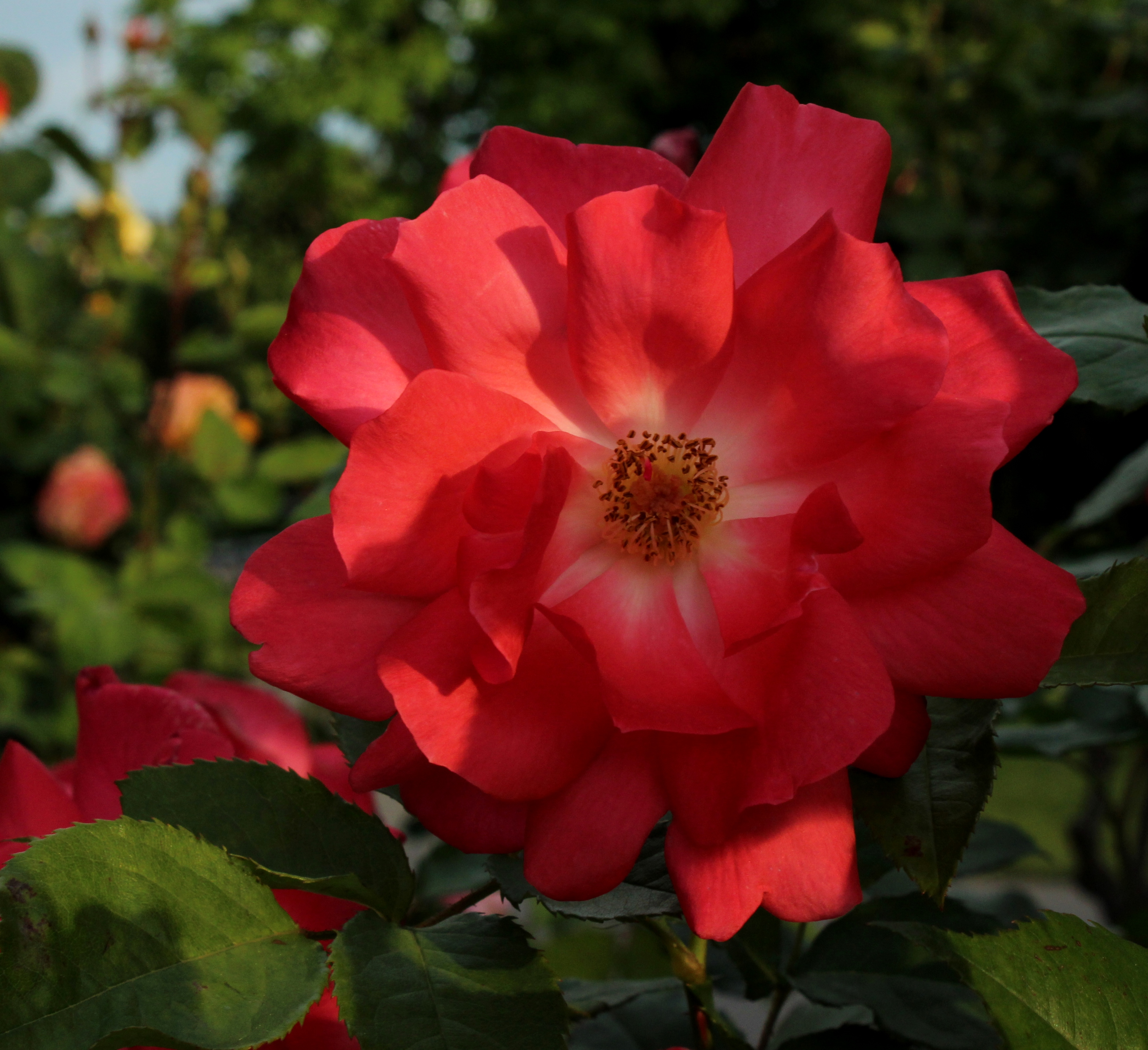 Rosa 'Pernille Poulsen' in the Volksgarten in Vienna. Identified by sign.